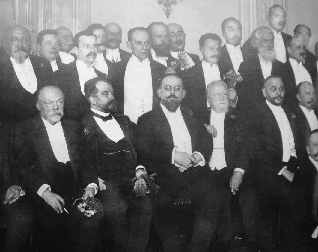 Bark Piotr (1869-1937) ministr of Russia - yubilei 45-ans